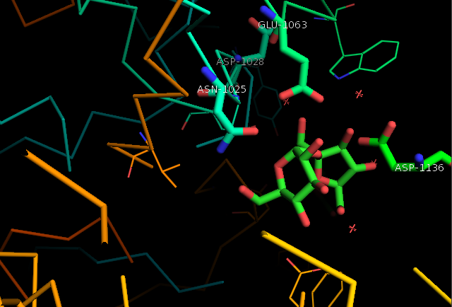 Sucrose (center right) is about to be cleaved. Glutamate (residue 1063) performs acid/base chemistry. Asparagine (residue 1025) acts as the nucleophile. Aspartate (residue 1136) stabilizes the transition state.